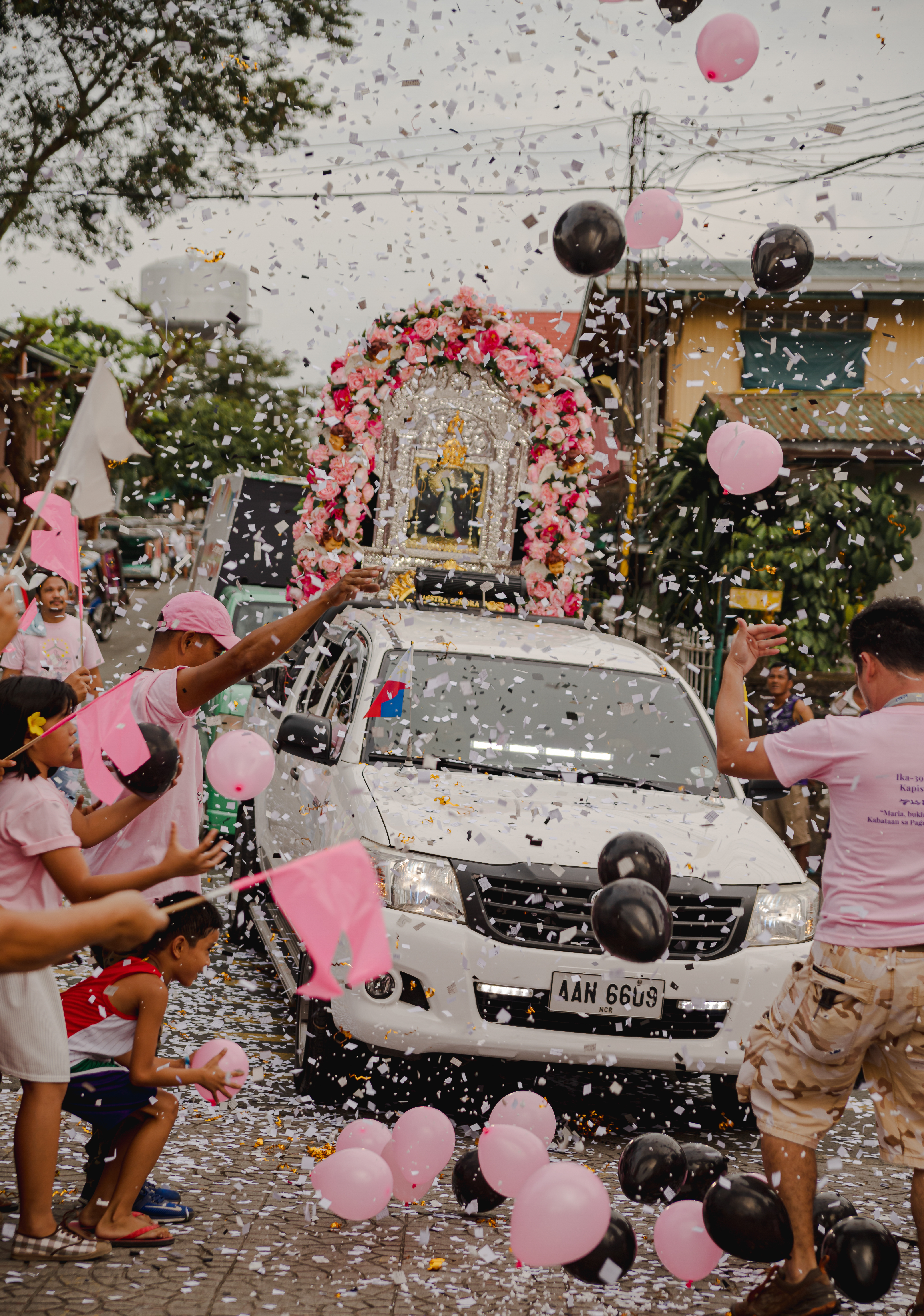 Dalaw Soledad at Nuestra Señora de Assuncion Parish, Maragondon